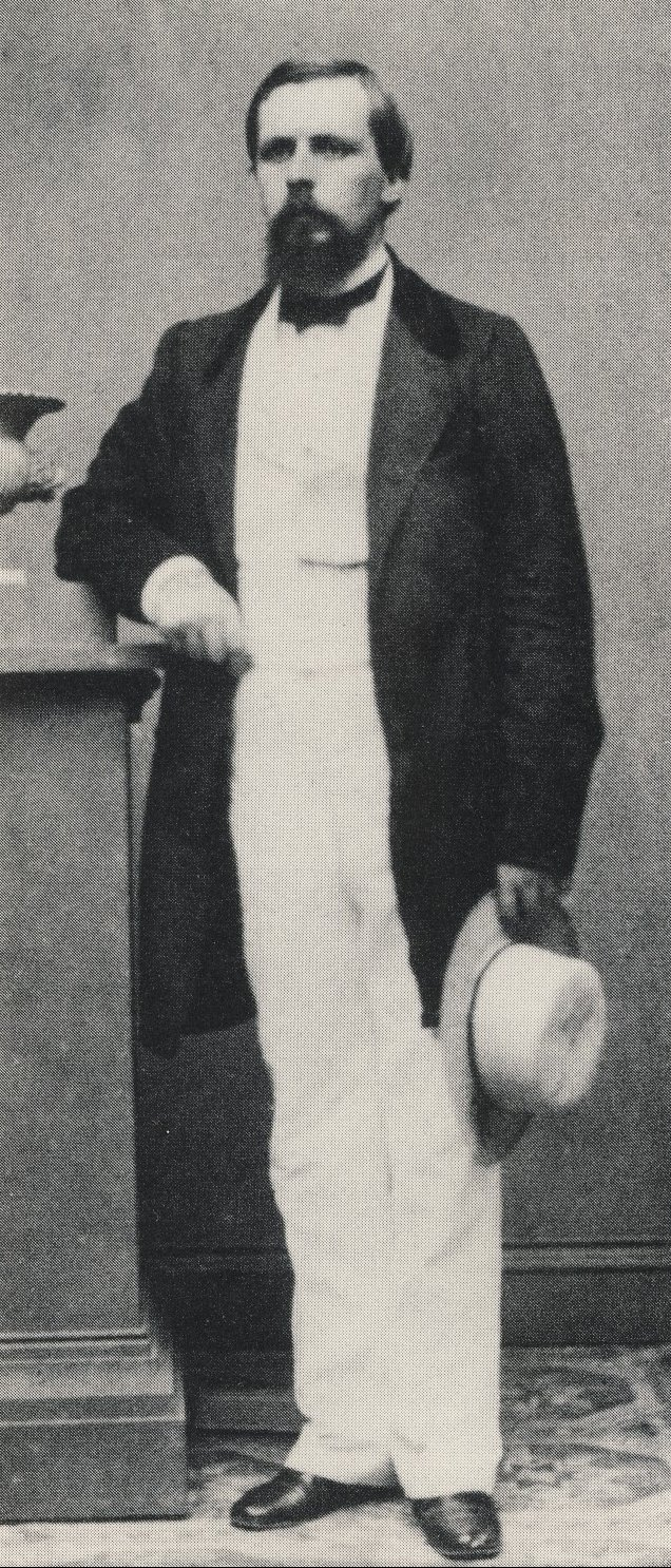 Samuel Hand (1833–86) was a prominent lawyer in Albany, New York. He became leader of the appellate bar and argued cases before the New York Court of Appeals in "greater number and importance than those argued by any other lawyer in New York during the same period" (Gunther, 7). Hand was the son of Augustus C. Hand, a justice of the New York Supreme Court and a Democratic senator; and he was the father of Learned Hand, a famous judge on the New York Court of the Second Circuit.